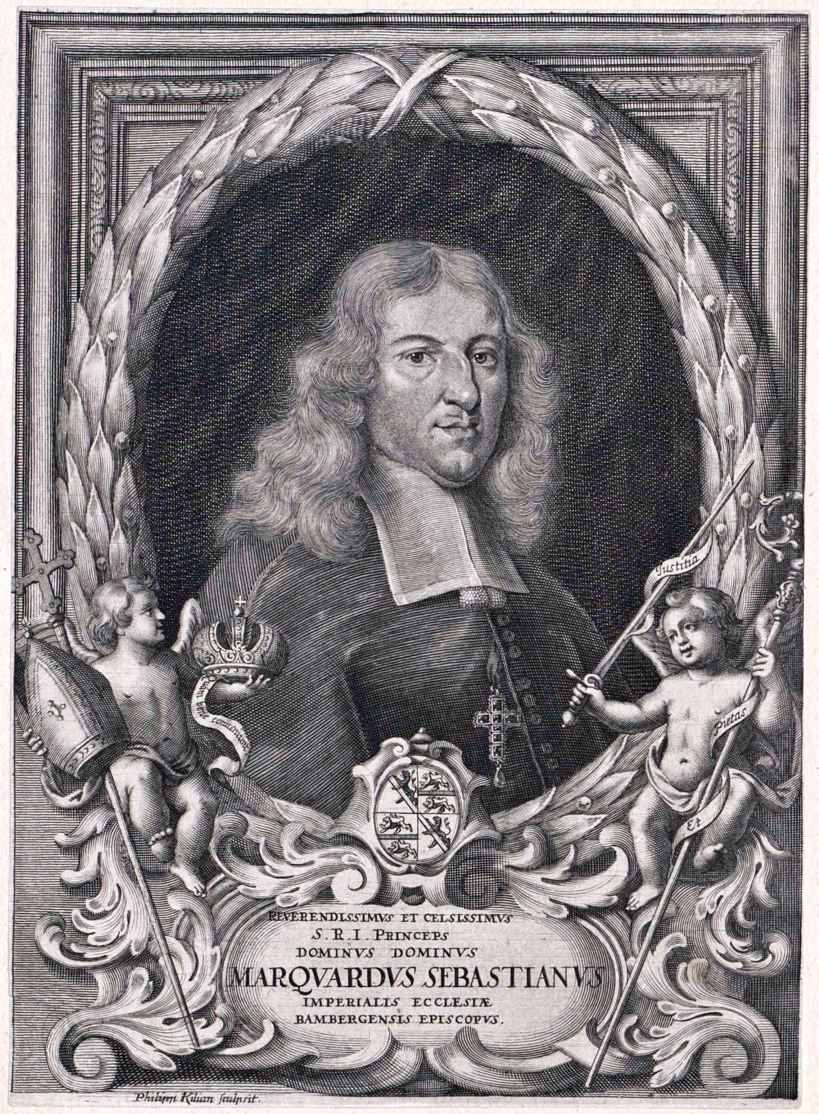 Marquard Sebastian Schenk von Stauffenberg (1644-1693), Fürstbischof von Bamberg